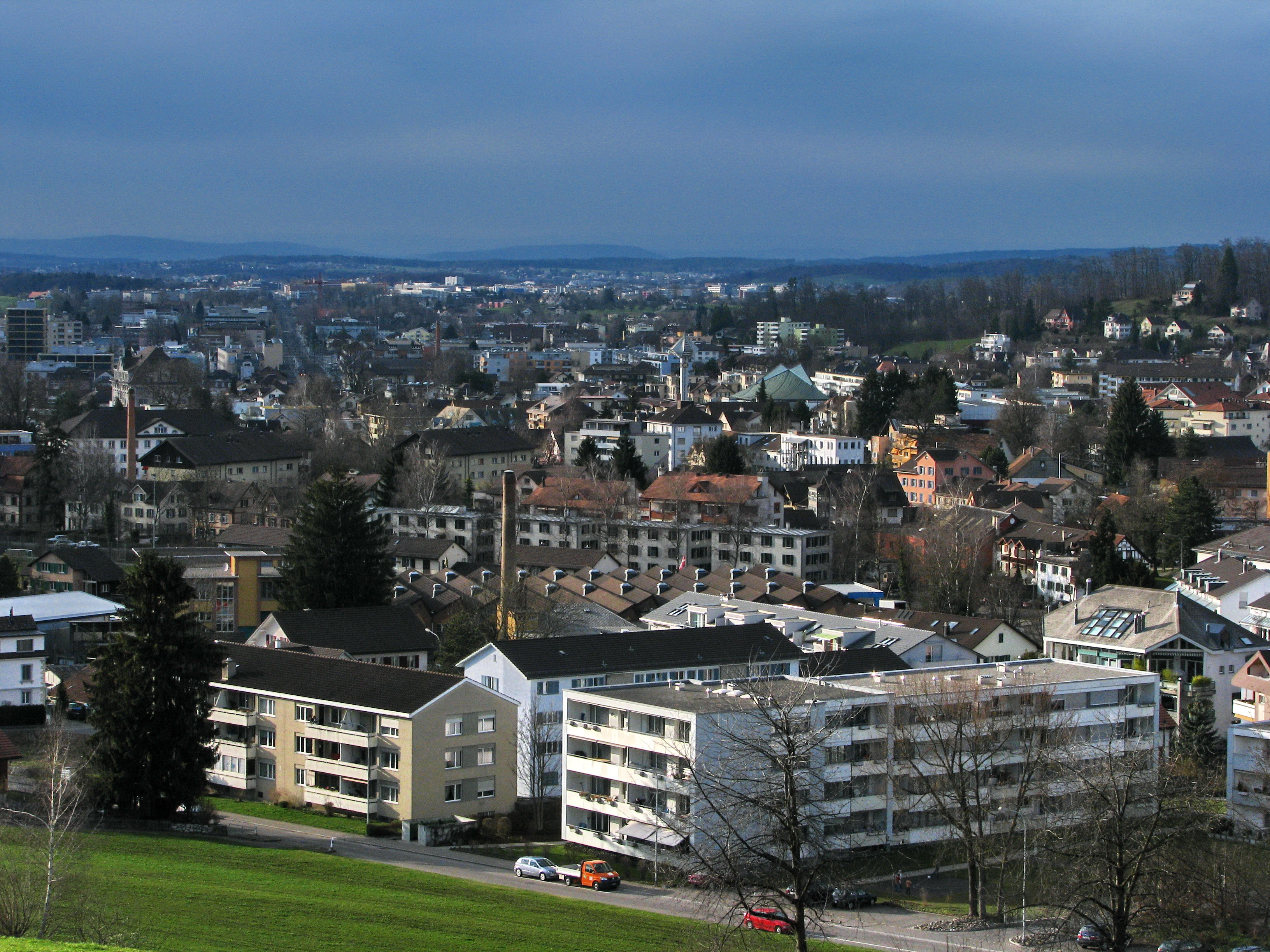 Uster inner city and Oberuster (Switzerland), as seen from Nossikon, Glatttal in the background.